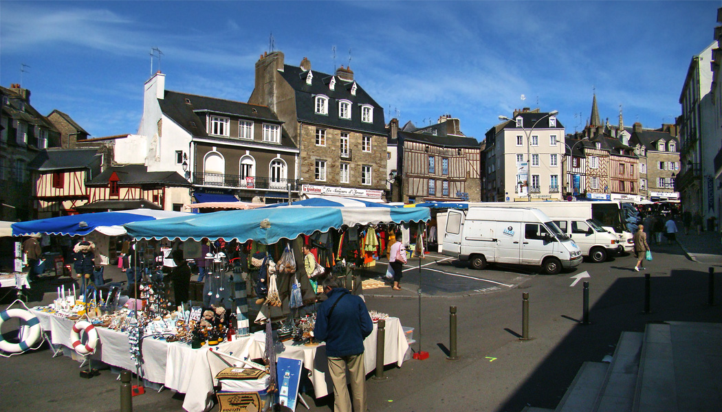 Vannes, Morbihan, Bretagne, France. Des Lices Square, where used to take place blade tournaments in bygone days, and more recently, competitions of Breton wrestling.